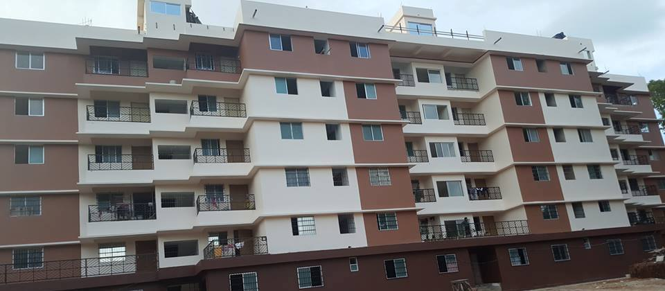 School of Nursing, Shanti Bhawan Medical Centre, Biru, Simdega